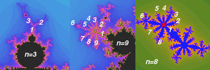 rays and cycles in Mandelbrot set bulbs